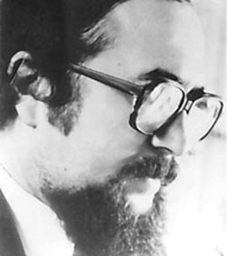 Mladen Dražetin (Cyrillic: Младен Дражетин, 3 March 1951, Novi Sad – 23 July 2015, Novi Sad) was a doctor of social sciences, Serbian intellectual, economist, theatrical creator, poet, writer and philosopher.